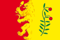 Flag of Uyar, Krasnoyarsk Territory, Russia